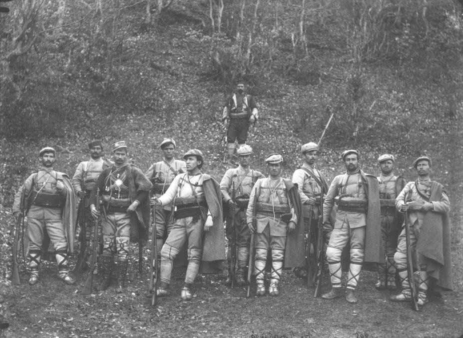 Cheta of Mihail Chakov